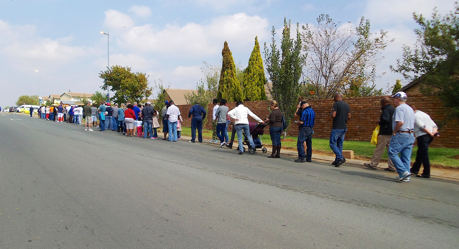 2014 Elections in South Africa, Swiss Club, Midrand